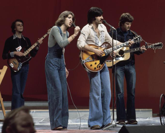 Peter, Sue & Marc at a rehearsal for the Eurovision Song Contest 1976.